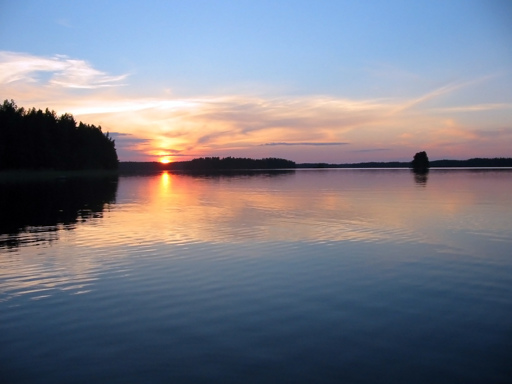 Lake Puulavesi in Eastern Finland at summer night.